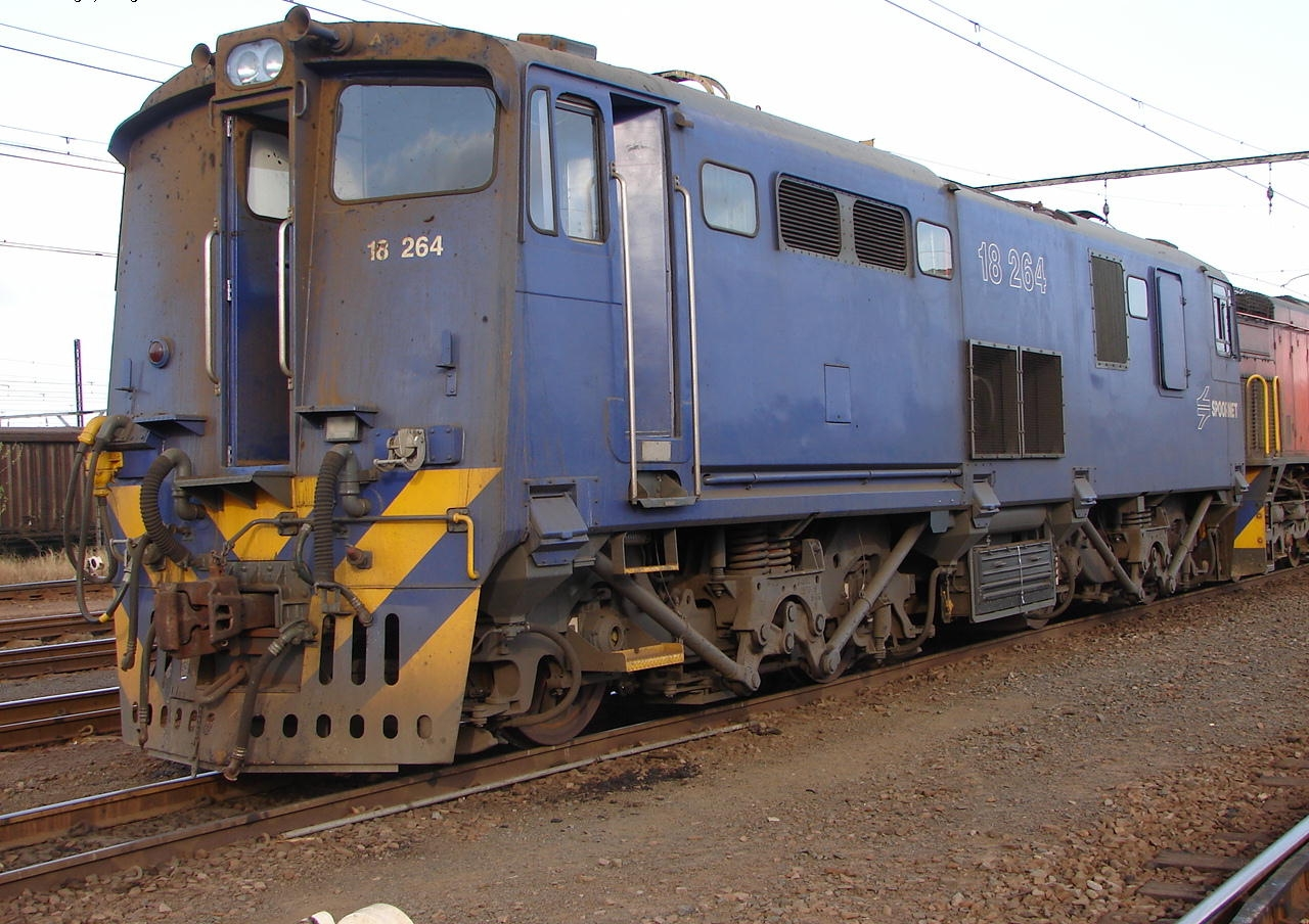 Spoornet Class 18E Series 1 18-264 Location: Bayhead Depot, Durban, Kwa-Zulu Natal History: Rebuilt in 2006 from Class 16E 16-405A (ex Class 6E1 Series 7 E1848)